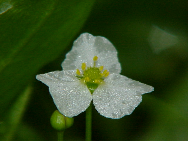 Species: Echinodorus isthmicus Family: Alismataceae Image No. 1